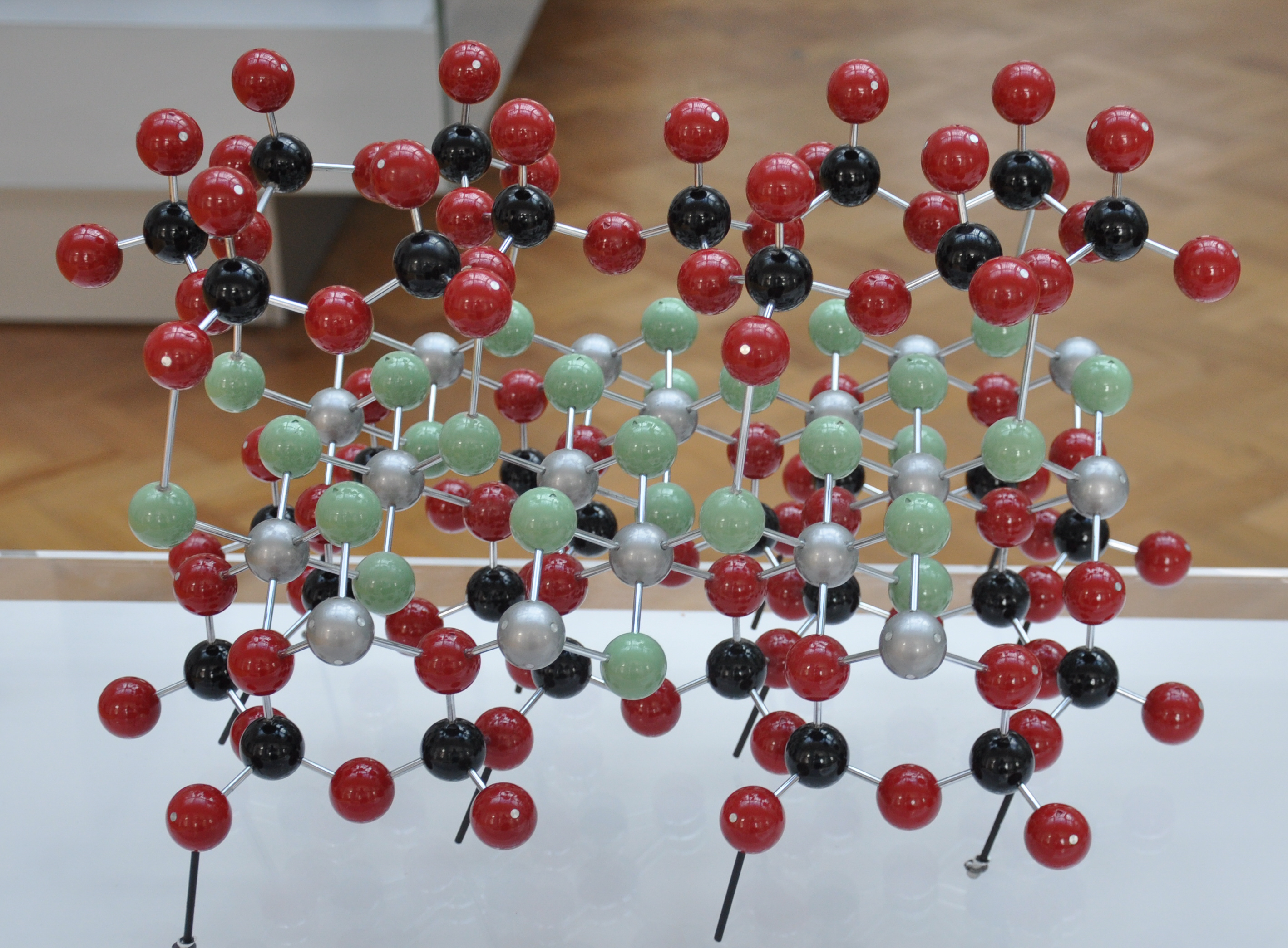 Structural model of the clay mineral Kaolinite; Victoria & Albert Museum, Ceramics department